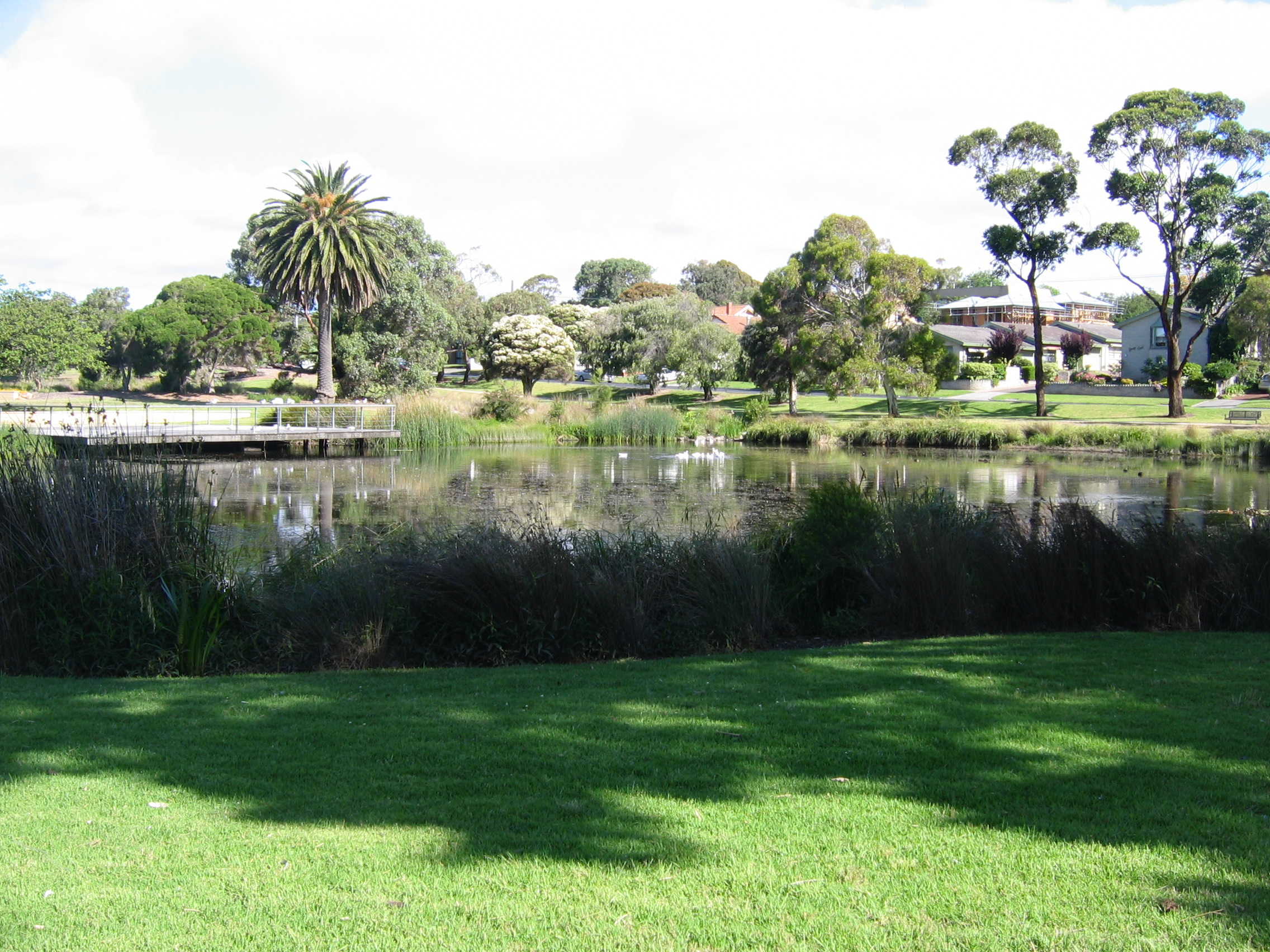 Beauty Park Lake in Frankston.